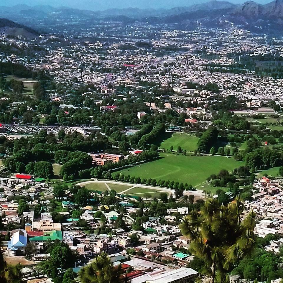 A bird's eye view of the scenic city of Abbottabad, Pakistan